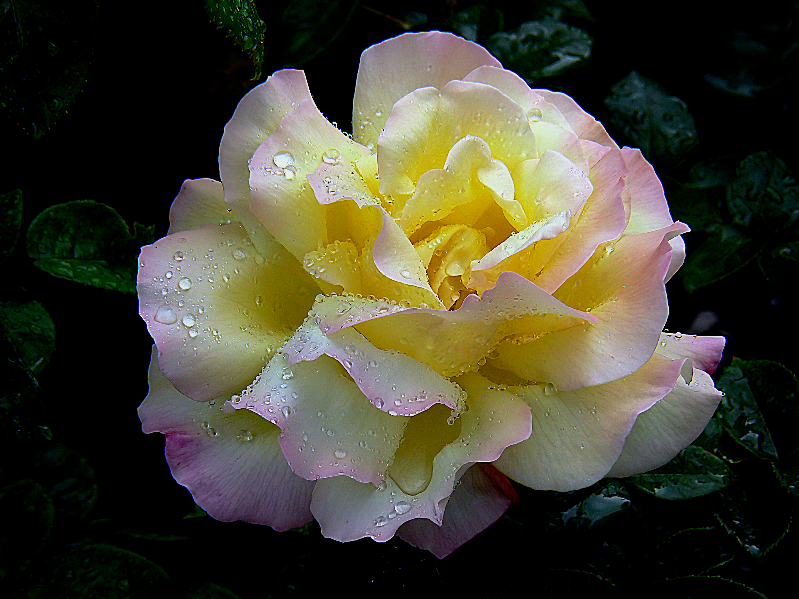 Peace Rose. Hybrid tea rose, bred by Frances Meilland, France, 1935. Originally named Rosa 'Madame A. Meilland'. Introduced in the United States as 'Peace'